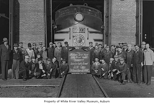 The first diesel electric locomotive repair shop on a US Railroad was built in Auburn by the Northern Pacific Railway in 1944. Railroad officials from throughout the US and many foreign countries came to study the facility and new facility and its maintenance procedures applicable to diesel locomotives which were just then beginning to replace steam power. The photograph shows Auburn diesel shop employees on the occasion of their 1200-day unbroken safety record - no reportable injuries during that time. People in the photograph: left to right, bottom to top: Gus Nelson, Guy Wickham, Harold Bourn, Harold Krie, Fred Schroeder, J.S. Atkinson, Donald Arbogast, Scotty Waugh, Don Hash, Bob Johnson, F.B. Childs, Tony Susnar, Joe Carrifre; second row: Lou Colburn, D. Freeman, L.G. Hess, Frank McGuire, Glen Warrick, Sam Scalise, Barney Knolls, Bill Ludwig, N.H. Bidelman, R. Phillips, Charles Eininger, Ken Leen, Bill Henry, Harold Burch, Roy Gustaves; third row: Fred Radtke, G. Stoddard, C.J. Martin, Jack Christenson, Steve Polich, J.B. Wagner, J. Wright, Joe Huff, Charles Roy Gustaves. View source image . More information on the commercial rights for this photo . Part of King County Snapshots University of Washington Libraries . Brought to you by IMLS Digital Collections and Content . Unrestricted access; use with attribution.